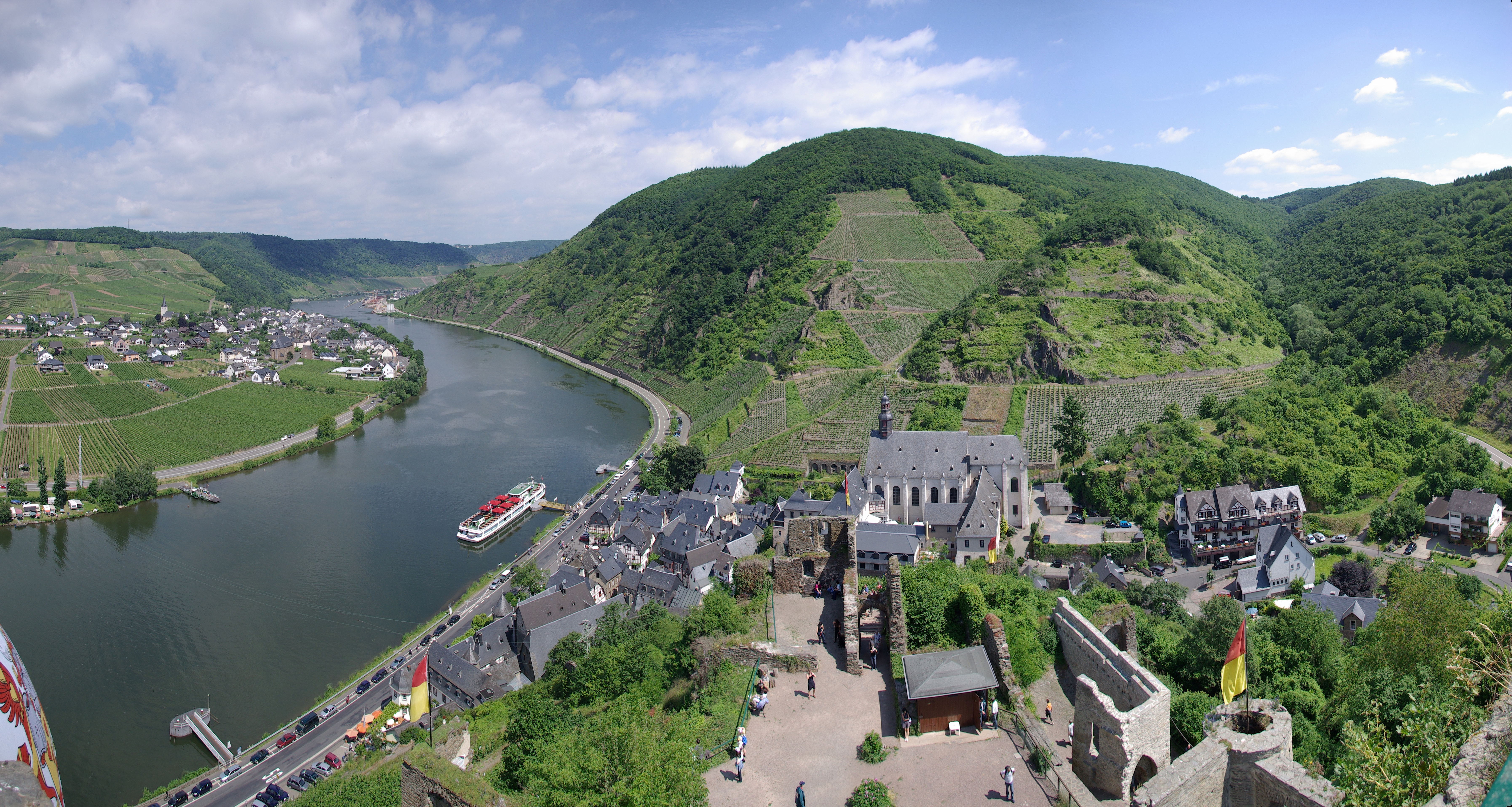 Germany, Beilstein at the river Mosel, view from the Castle Metternich